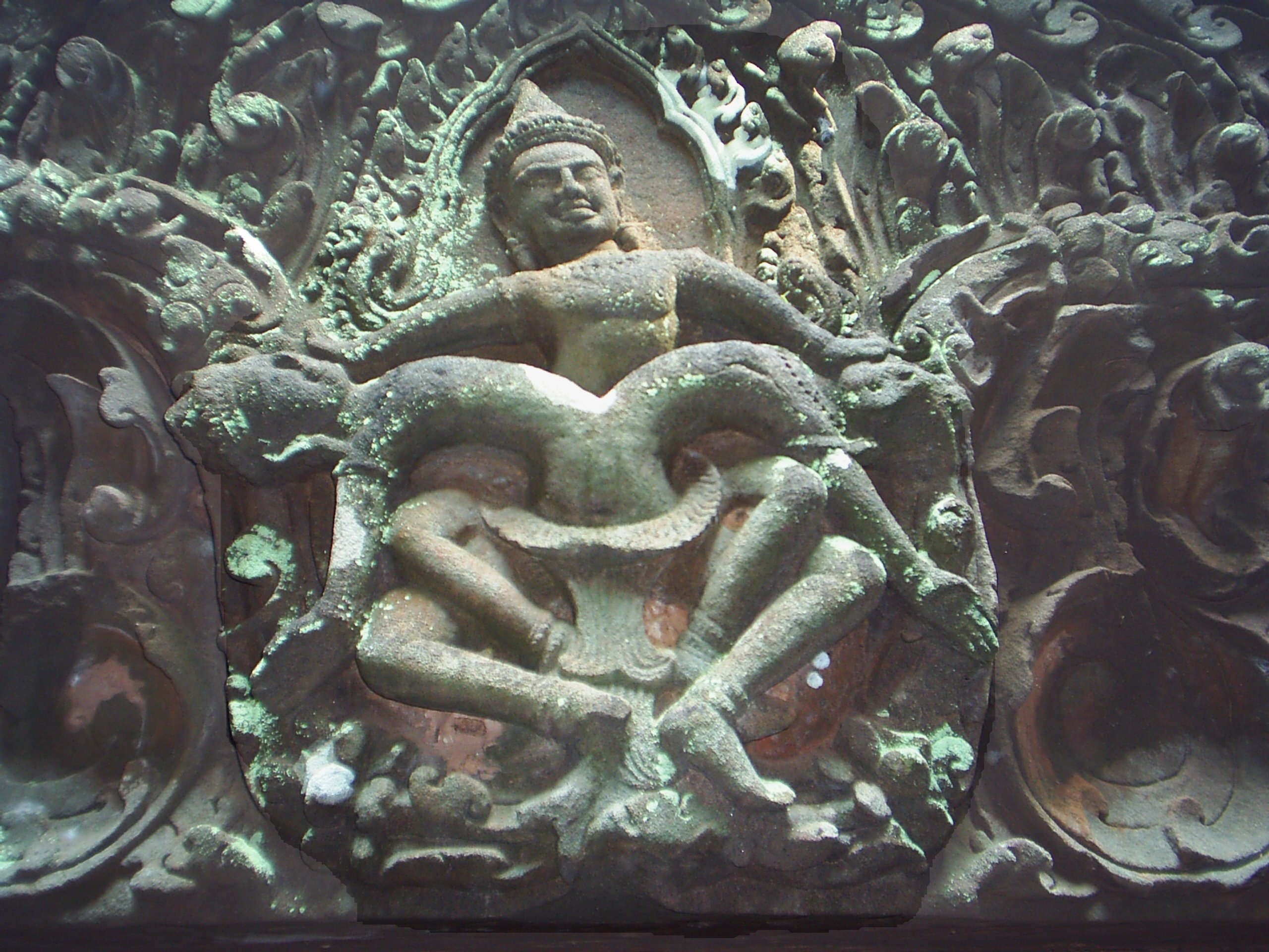 Pediment showing Krishna killing Kamsa, south side of sanctuary at Wat Phou, Laos. Autumn 2005.